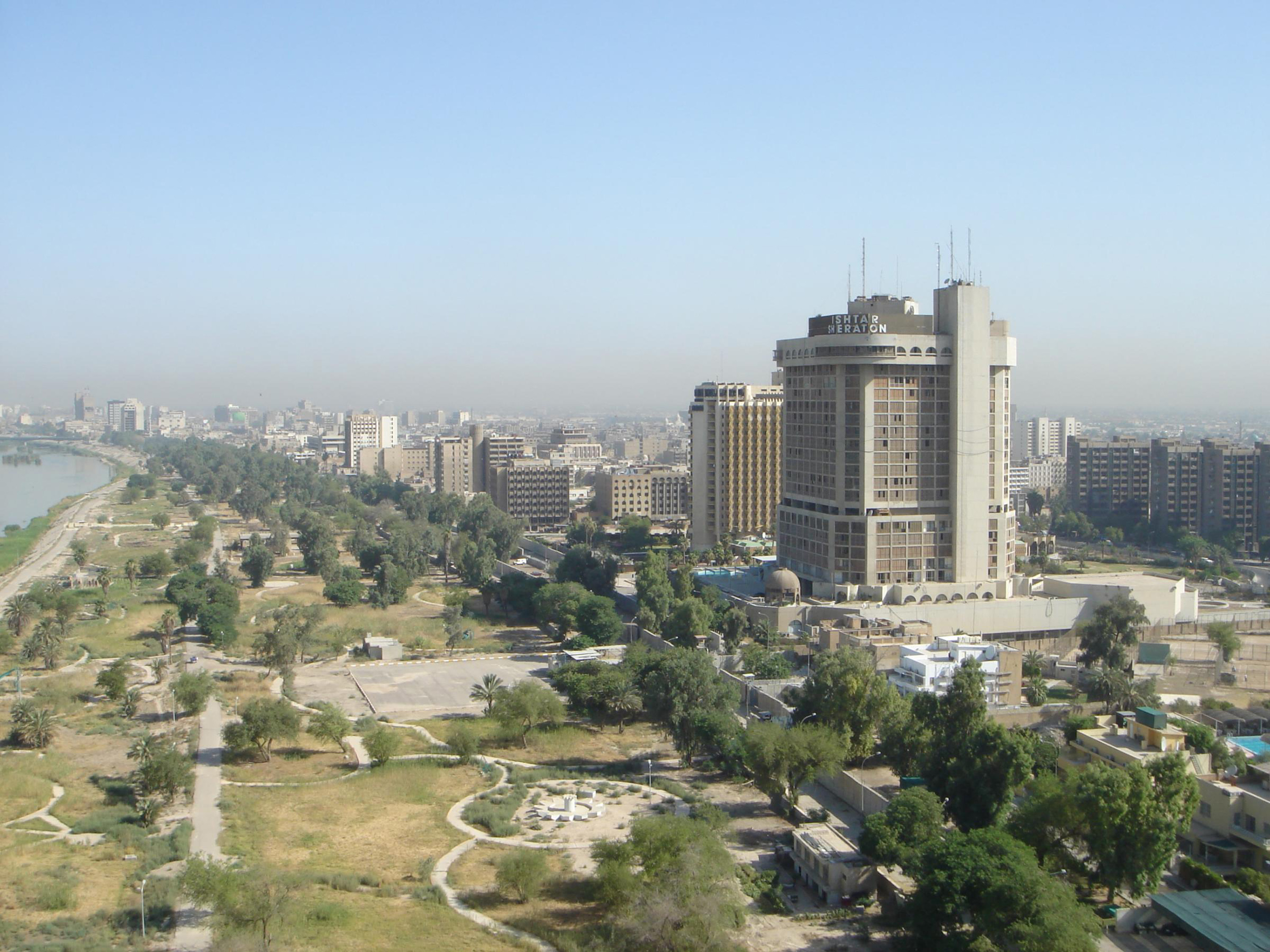 Baghdad, the two large buildings in the middle of the photo are (Ishtar Sheraton hotel) and (Palestine Meridian hotel), the trees in the middle of the photo are covering (Abu Noaas Street) including the park next to the river.